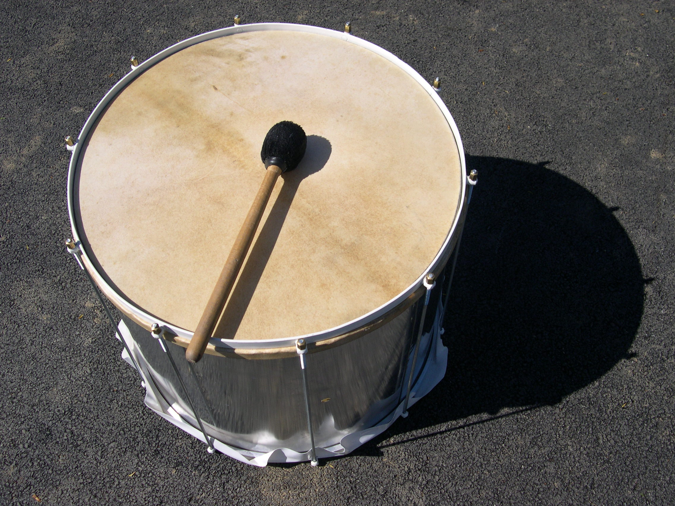 22" surdo with animal skin